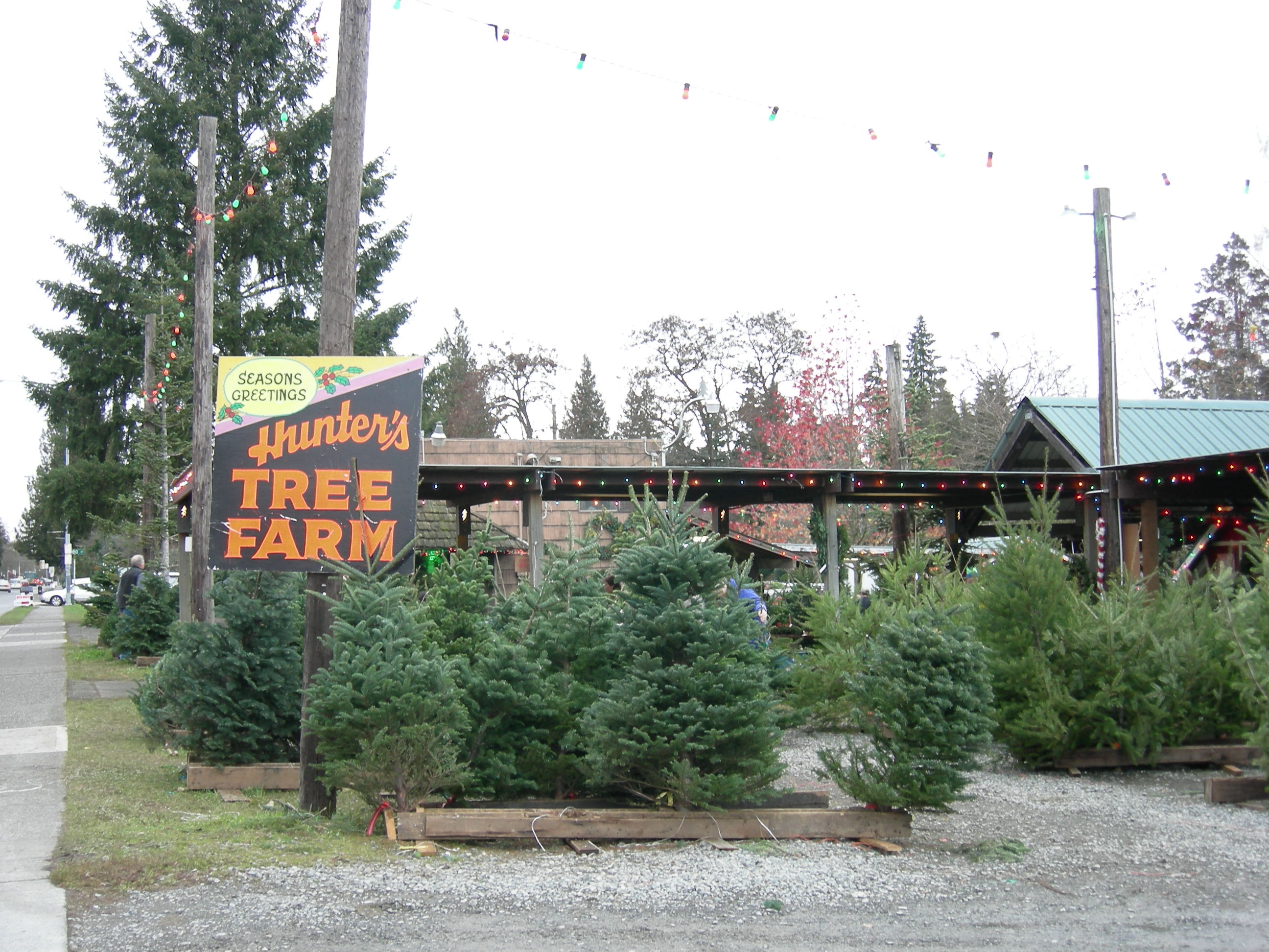 Hunter's Tree Farm lot in the 7700 block of 35th Avenue NE, Wedgwood, Seattle, Washington. The actual Hunter's Tree Farm is in the Skokomish Valley, but they retain this plot of land in the city to sell Christmas trees every year. (It's also used in the summer and early autumn to sell berries, but not for much else.)